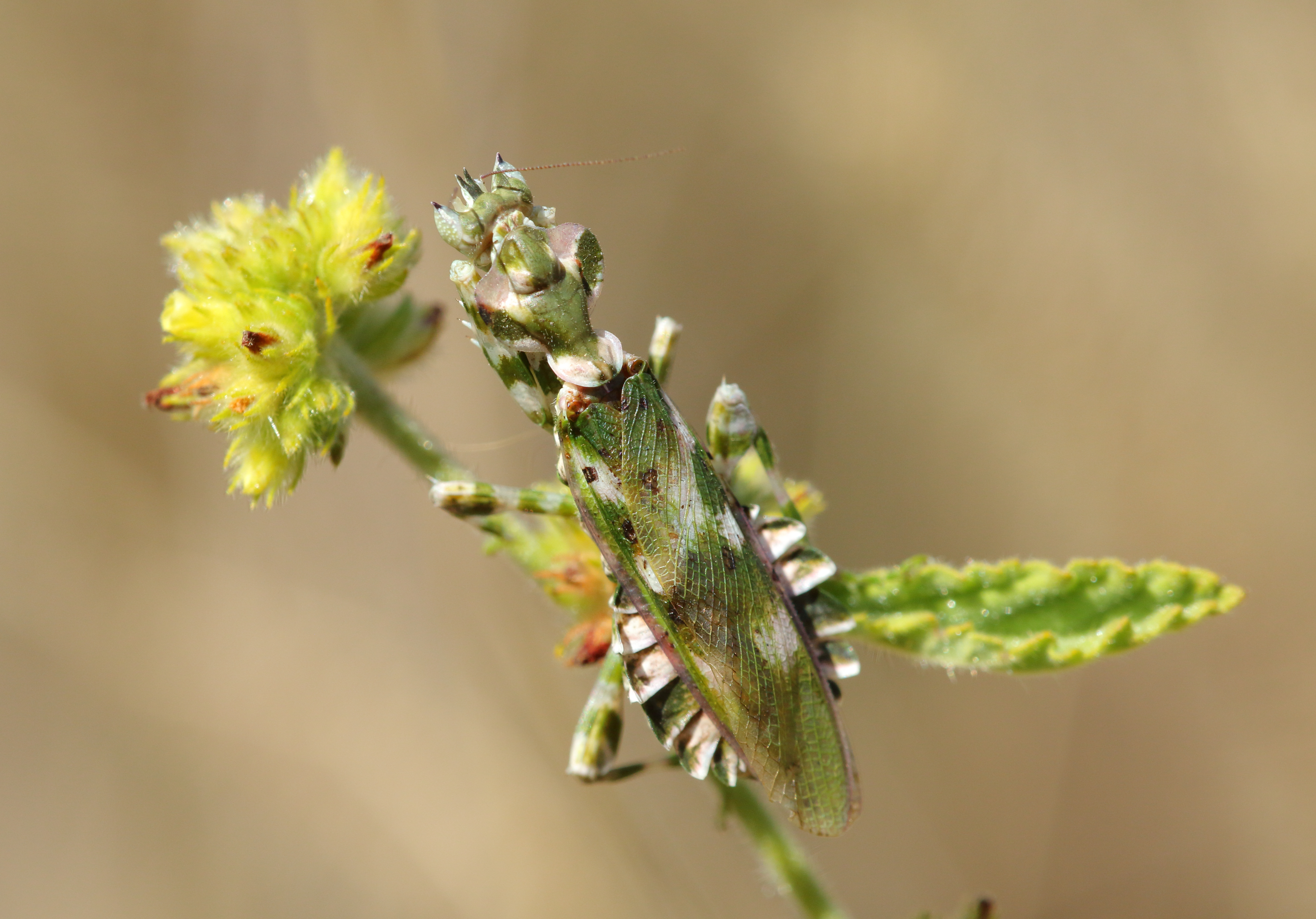 Harpagomantis tricolor, a flower mantis; at Cumberland Nature Reserve, KwaZulu-Natal.